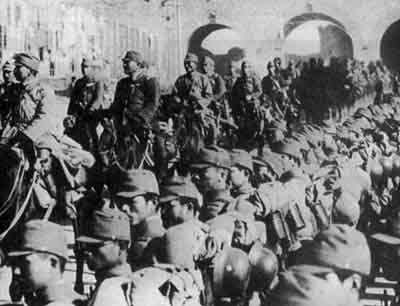 Japanese forces march into Nanking. Weeks of horror await the civilians. Author: Likely a Japanese military correspondent as the following similar image is identified as : 'Printed on the following pages are the photographs that Japanese war correspondents took after the Japanese armyÂ fs victory parade on December 17' [1] Source: Image qualifies under fair use as no new photo may be produced for the Nanking Massacre. Copyright claimed by . The Nanking Massacre occurred in 1937-1938, so this photograph is old enough that it is public domain under Japan's copyright laws.